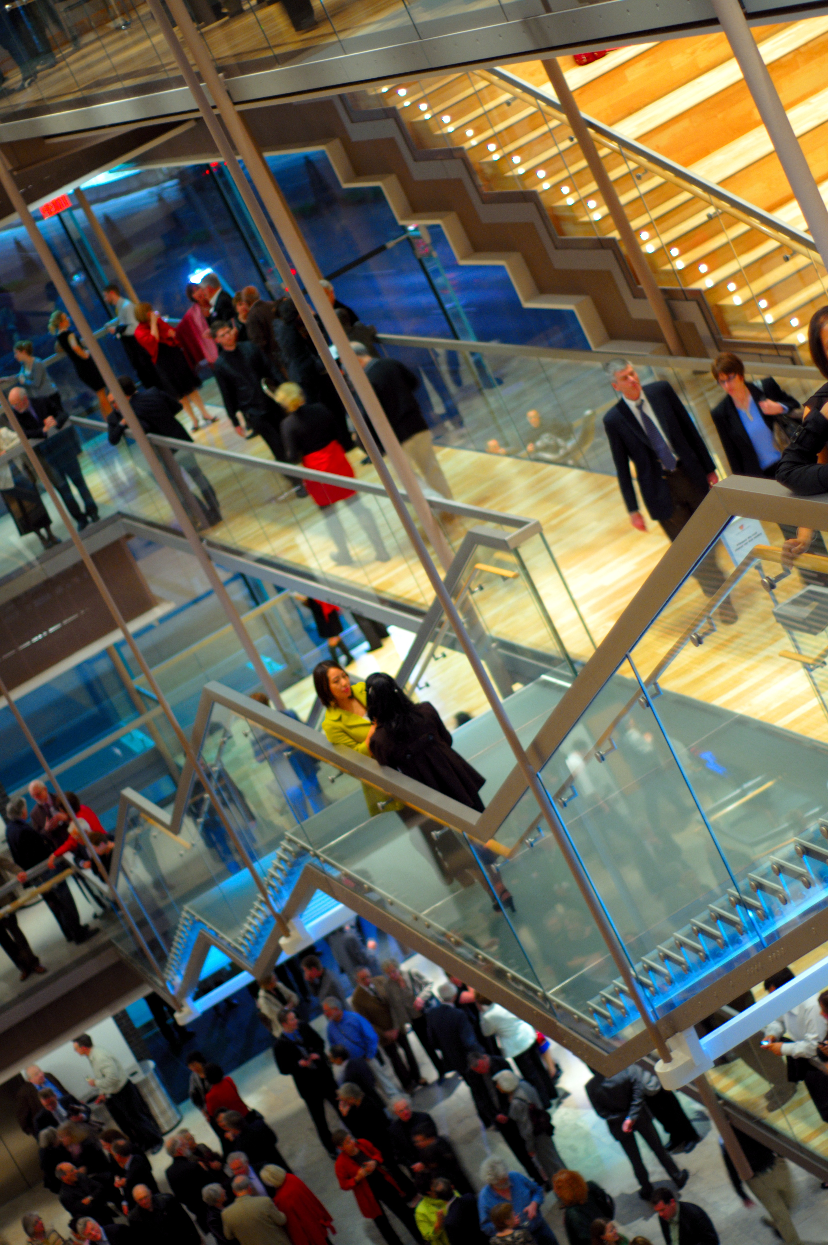 at the Four Seasons Centre, Toronto.